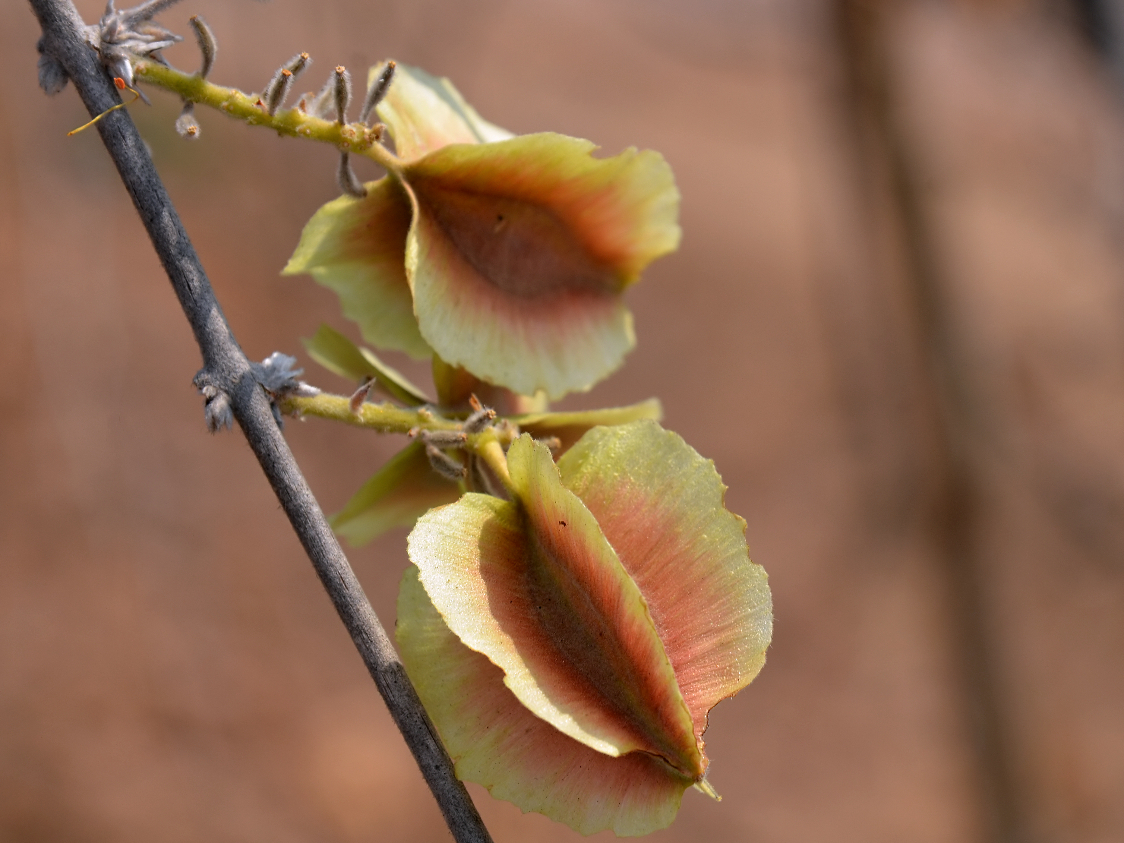 Knobbly bushwillow near Nyimba, Zambia.